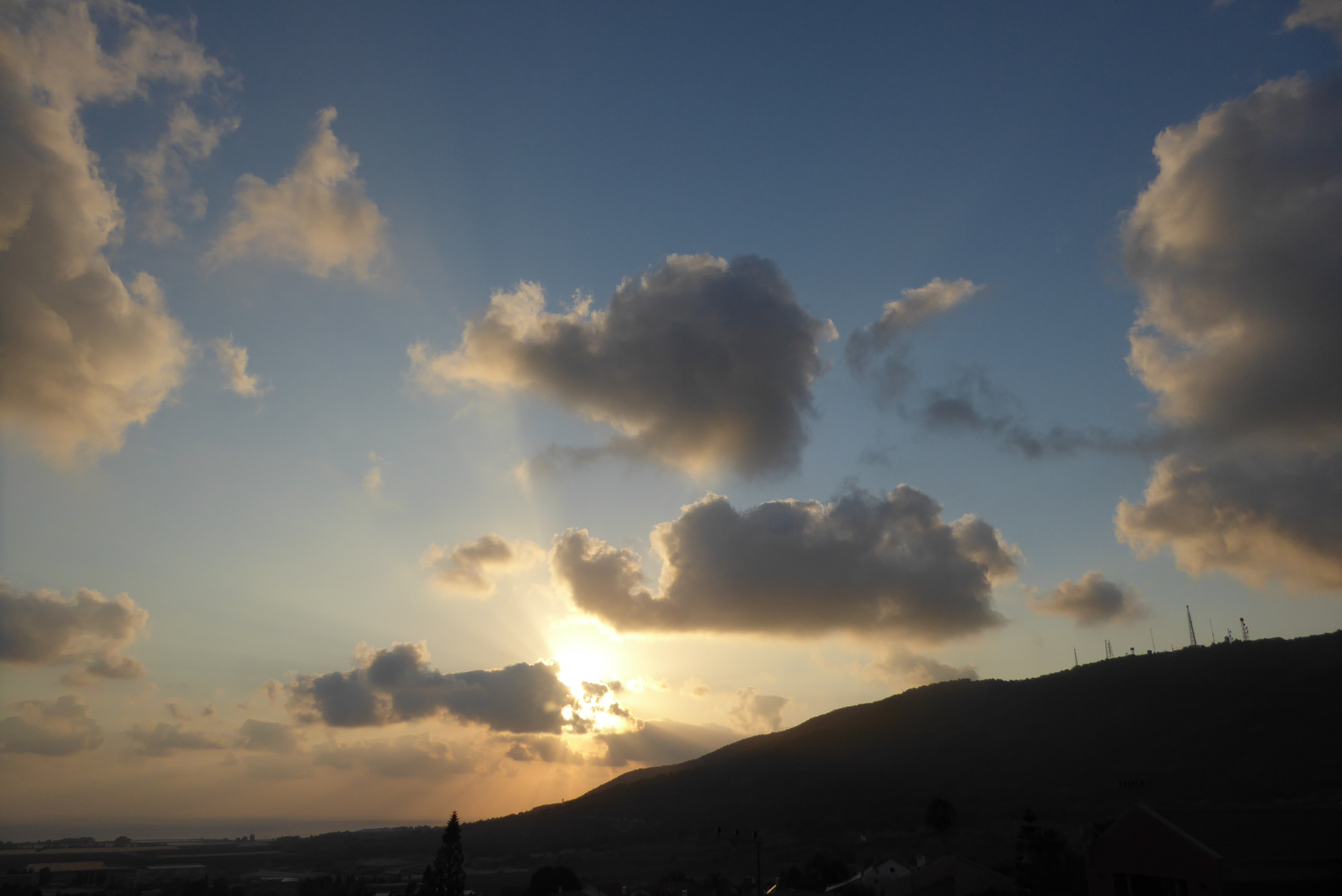 Shlomi (Hebrew: שְׁלוֹמִי) is a town in the Northern District of Israel.